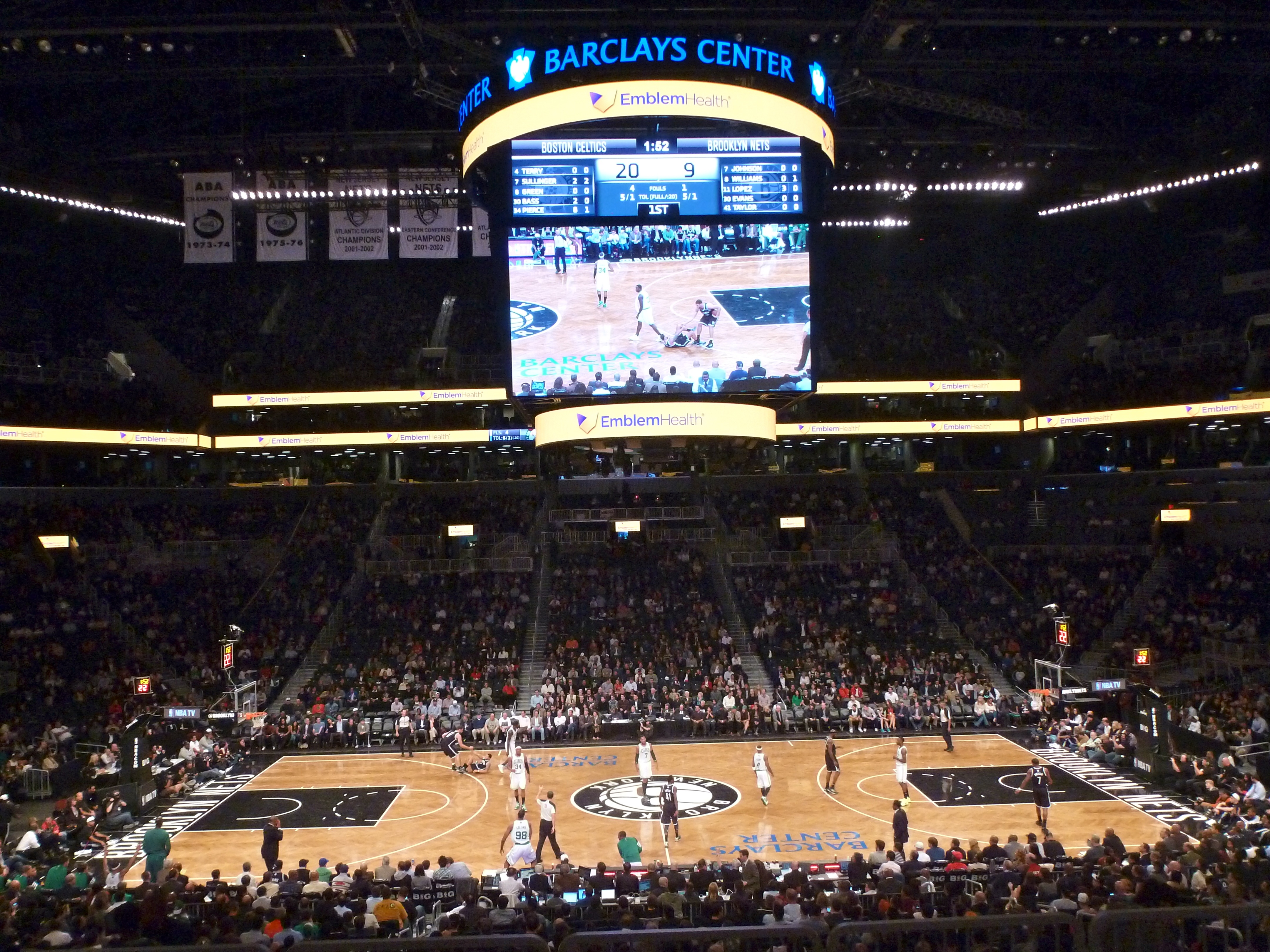 Barclays Center in Brooklyn, New York.